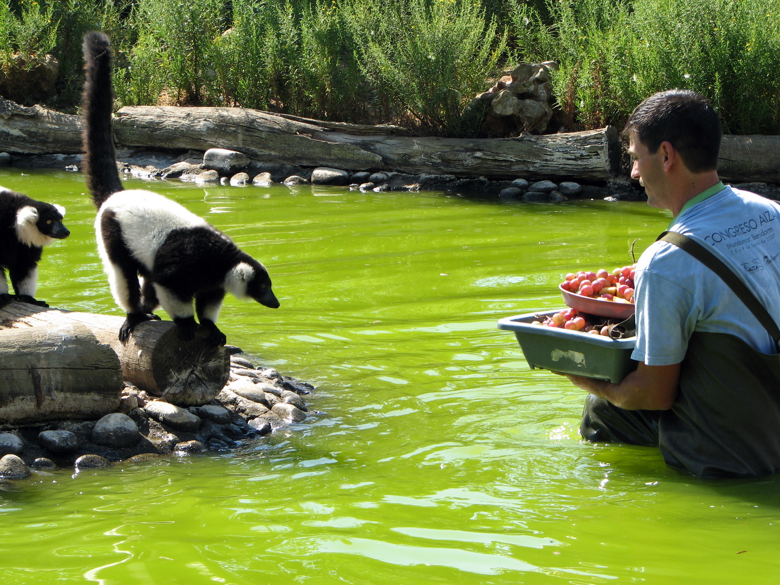 Monkey Island (Feeding time) - Lagos Zoo - The Algarve, Portugal